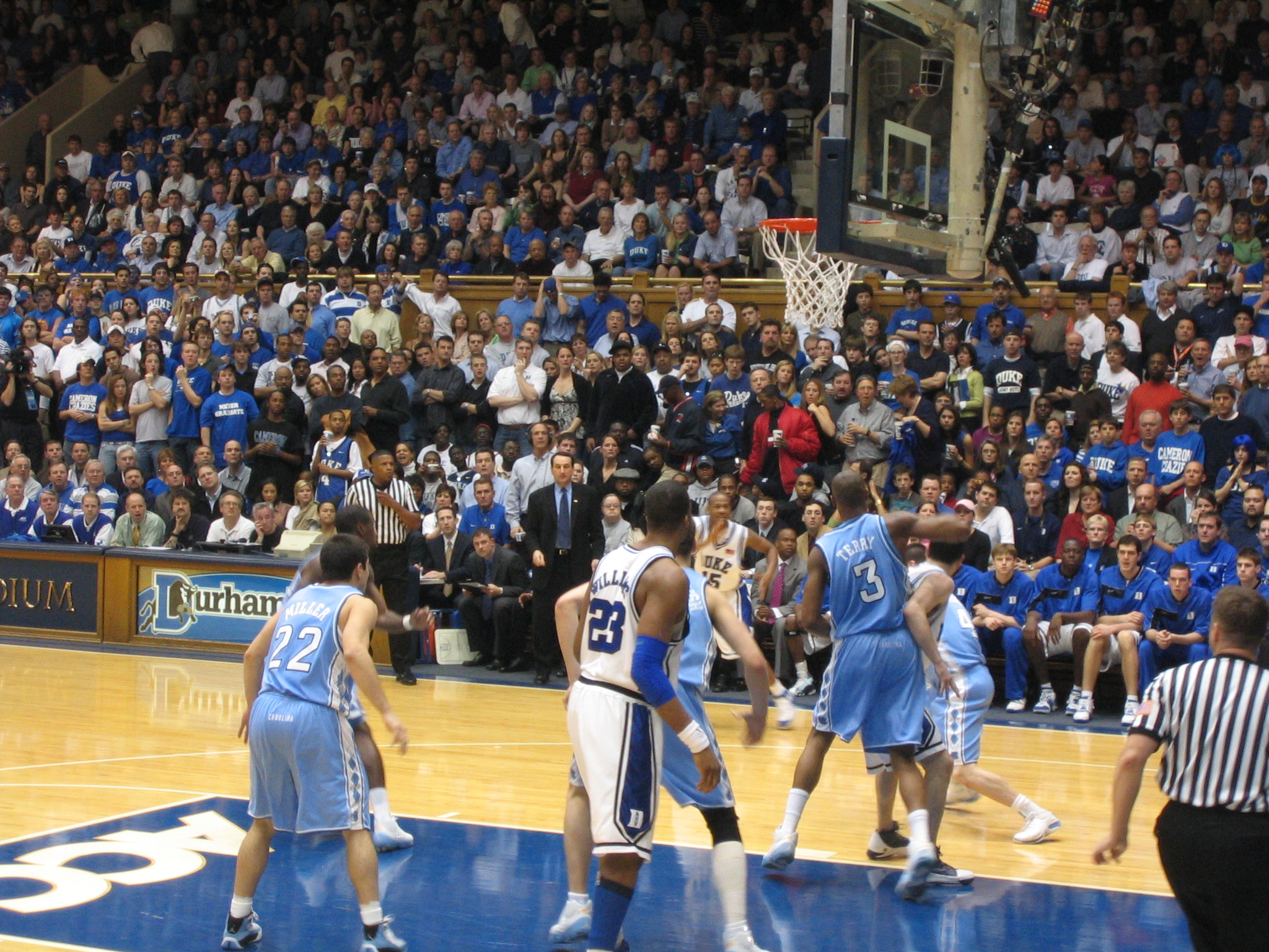 North Carolina Tar Heels vs. Duke Blue Devils men's basketball at Cameron Indoor Stadium, March 2006.